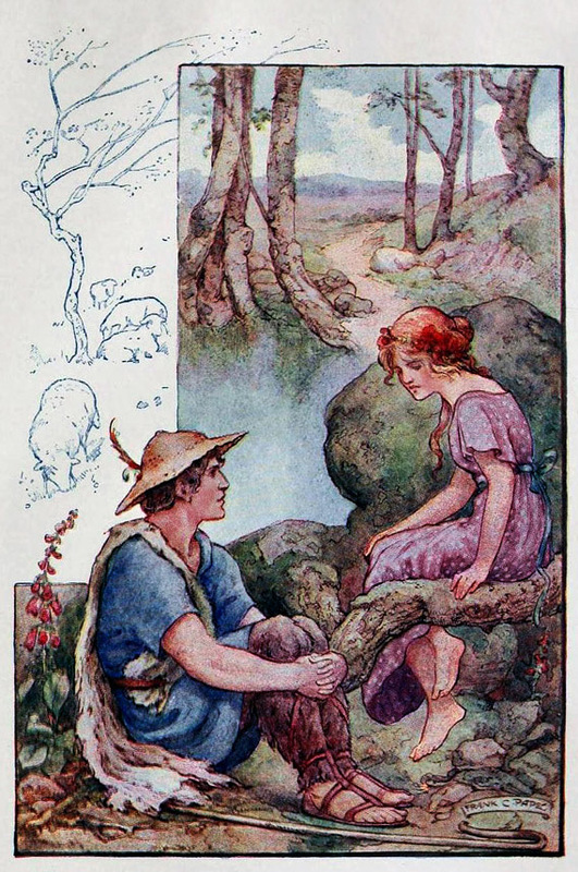 Calidore and Pastorella The Story of Sir Caledore and the Blatant Beast from The Faerie Queene